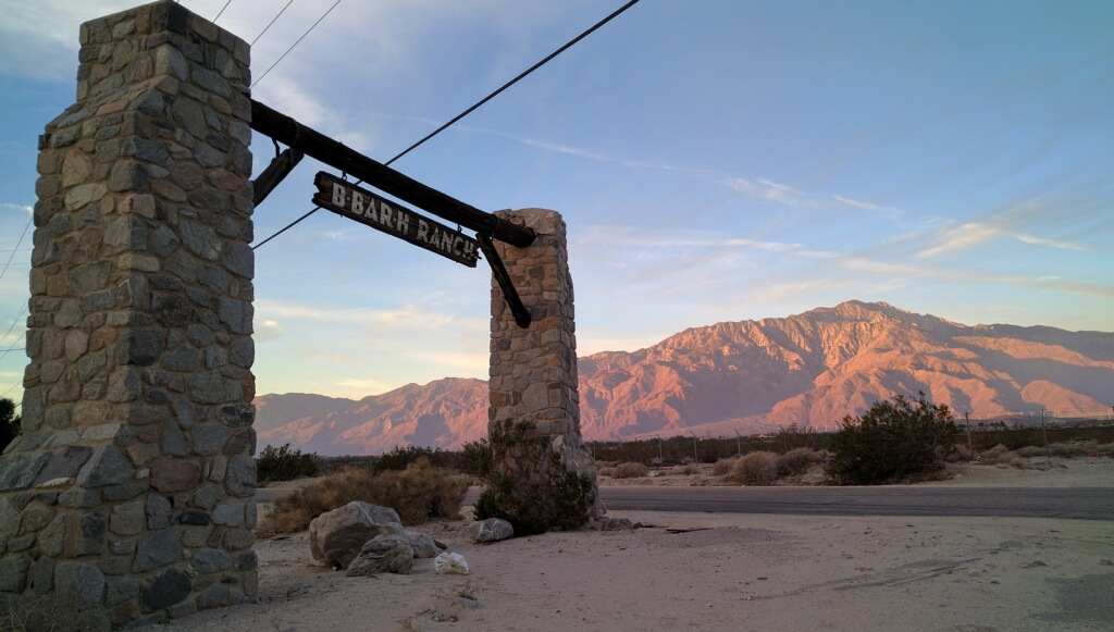 B Bar H Ranch Arch as it appear today (Tad Seney)